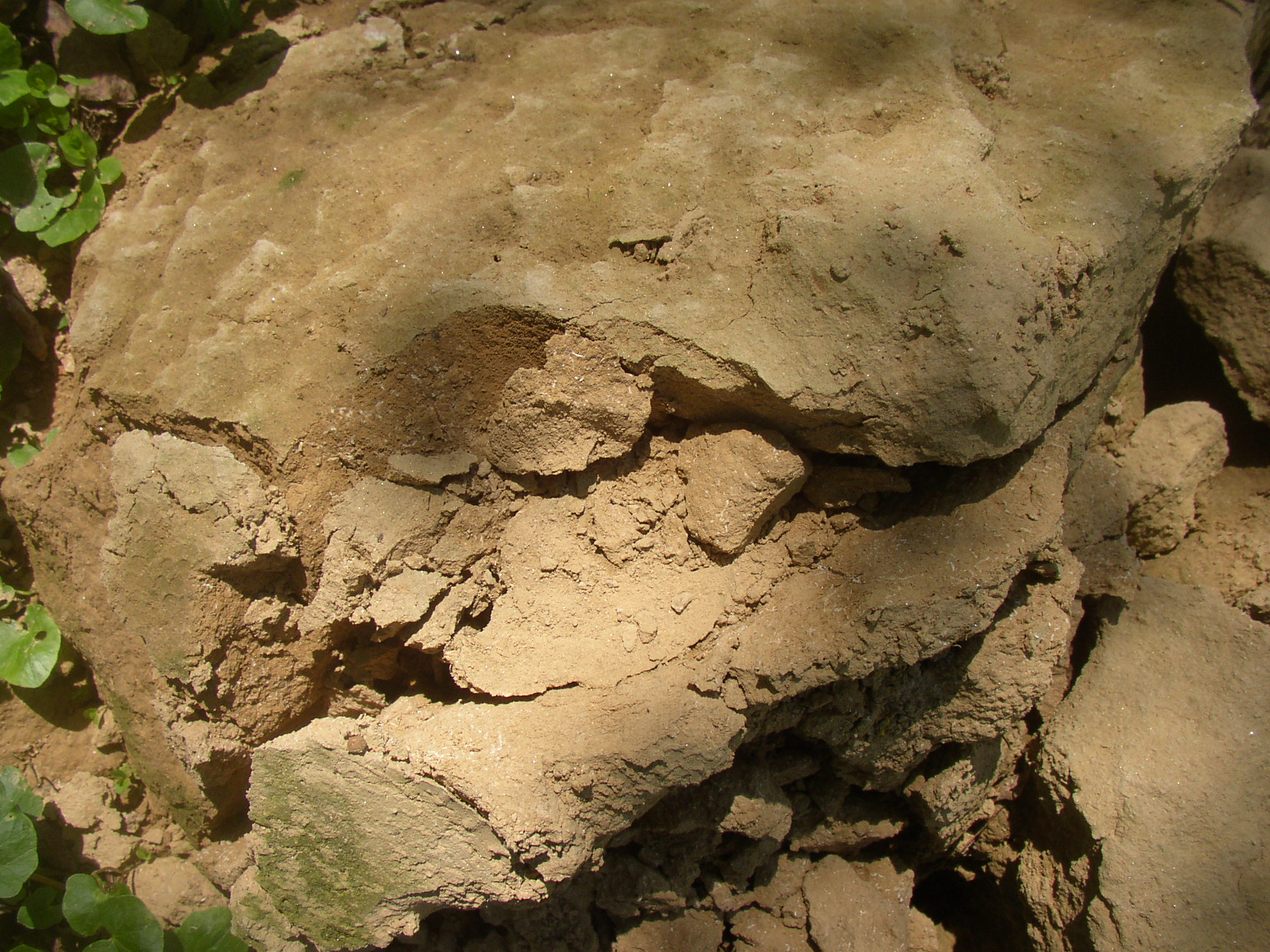 Loess Gully near Zeměchy Natural Monument, Zeměchy, part of Kralupy nad Vltavou town, Mělník District, Czech Republic. Closeup of a fallen piece of loess.